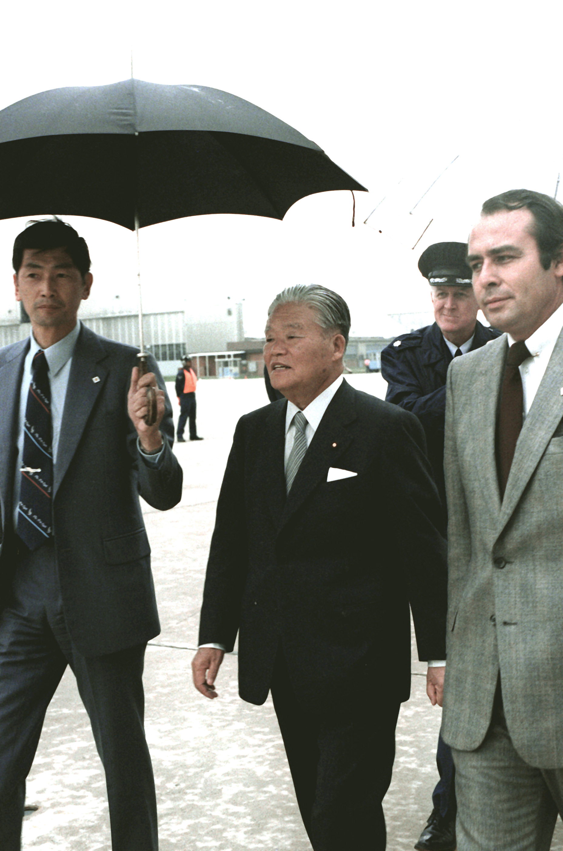 Japanese Prime Minister Masayoshi Ōhira (大平正芳, 1910–80, in office 1978–80) walks towards his limo upon his arrival in the United States for a visit at Andrews Air Force Base.